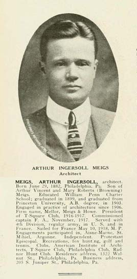 "Arthur Ingersoll Meigs, Architect."